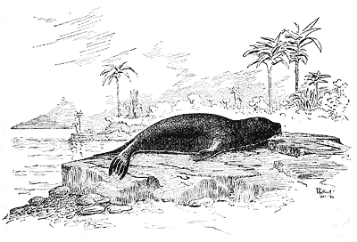 The Caribbean monk seal Monachus tropicalis as depicted by Henry W. Elliott in 1884